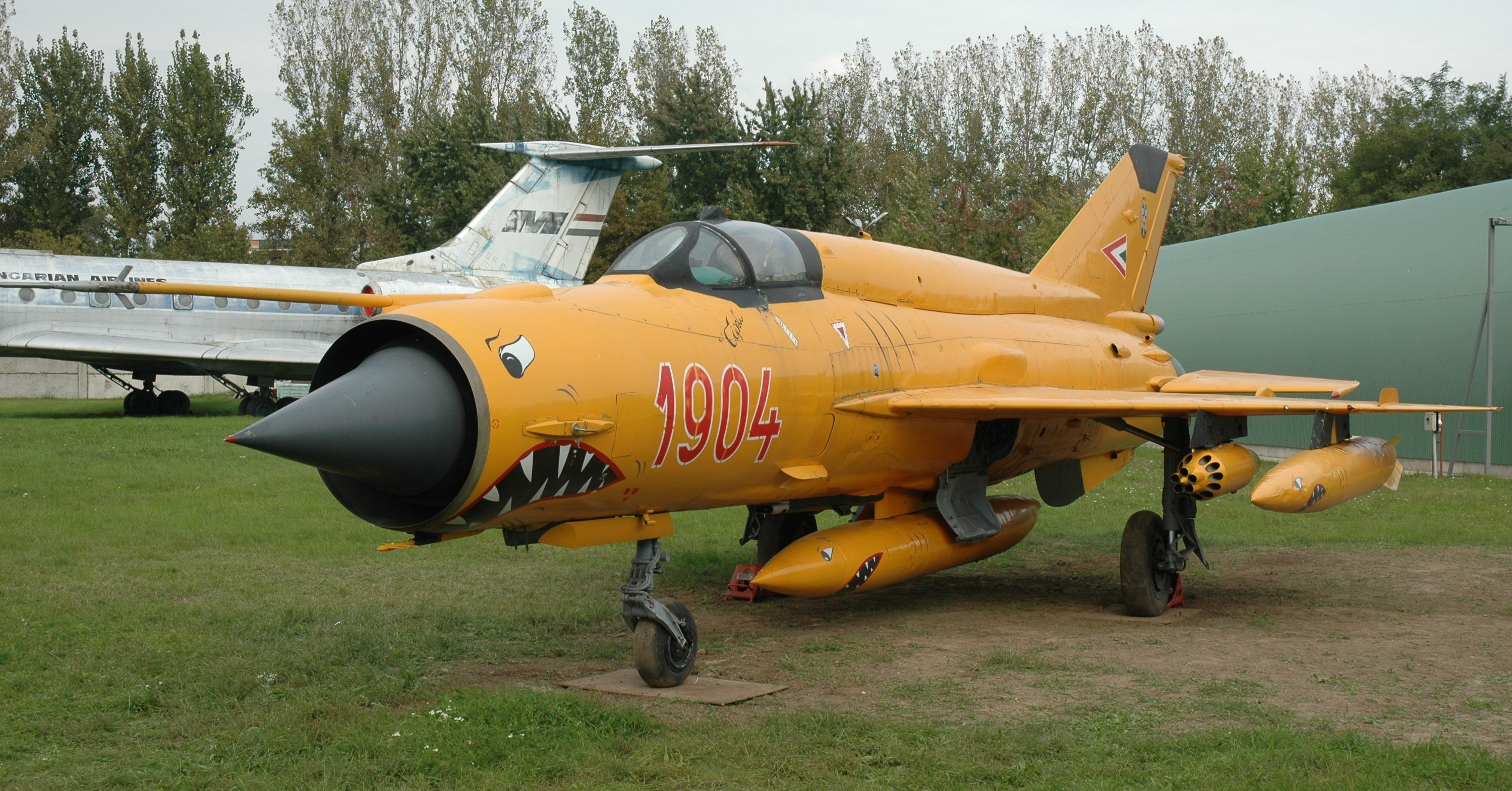 Mikoyan-Gurevich MiG-21bis (75AP) fighter (named "Cápeti") with special painting. Displayed at the Hungarian Aviation Museum in Szolnok.